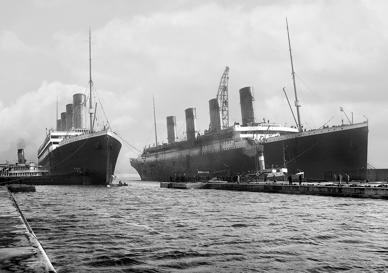 Derived from File:Olympic and Titanic.jpg